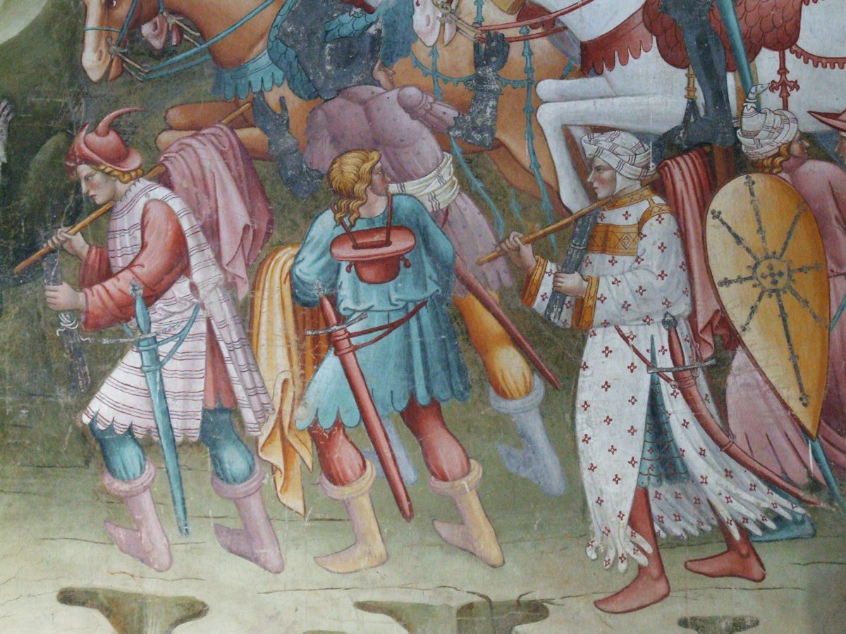 San Francesco (Church of St. Francis), Volterra, Italy